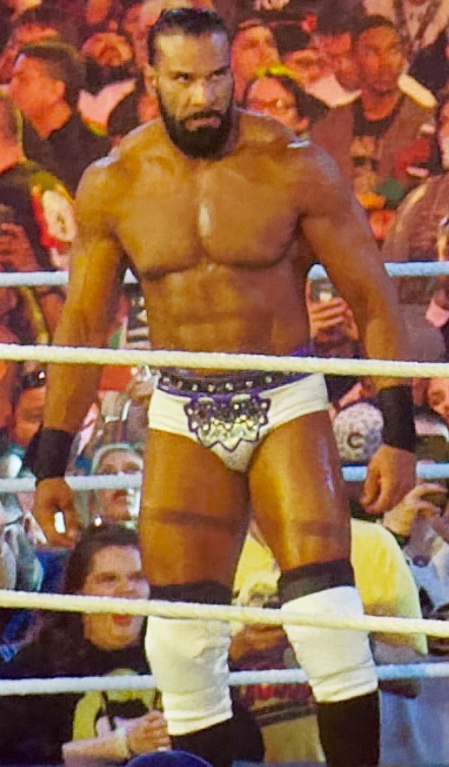 This is a image taken by Miguel Discart of wrestlers Randy Orton, Rusev and Jinder Mahal at the WWE pay per view event WrestleMania 34.